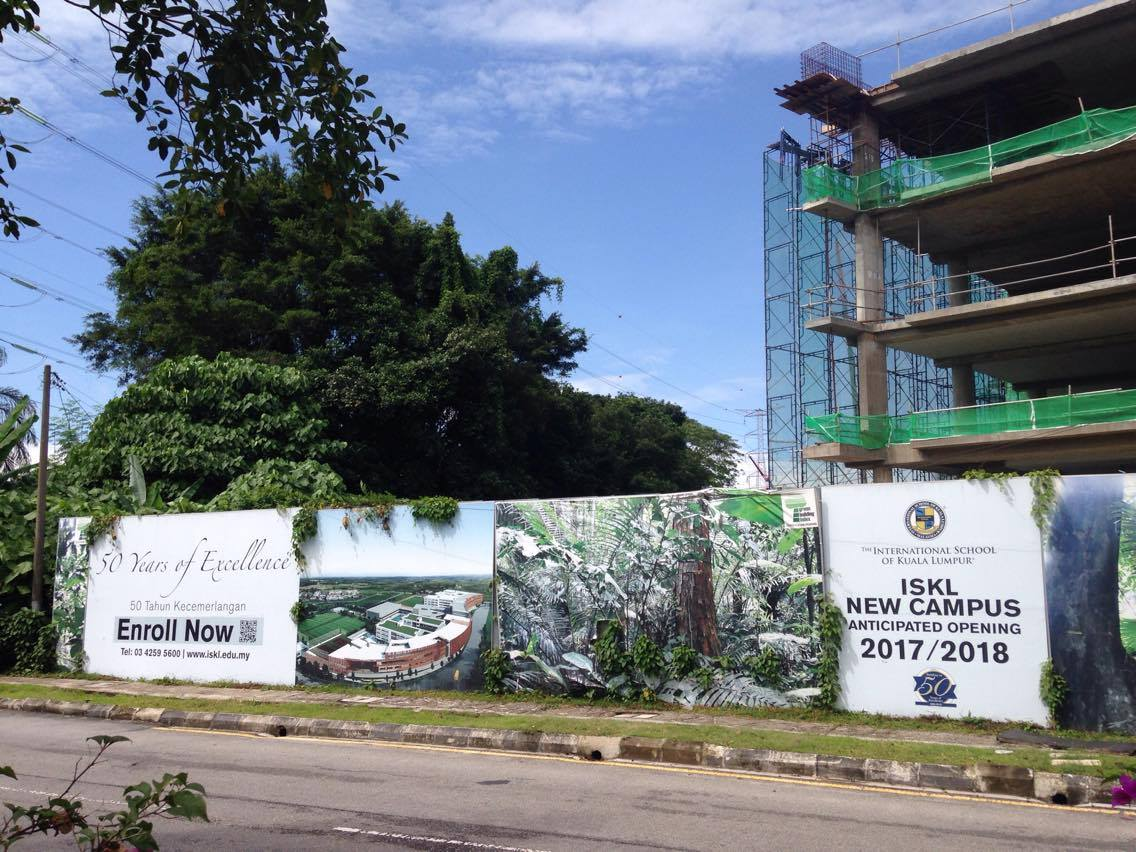 View of ISKL's new campus under construction